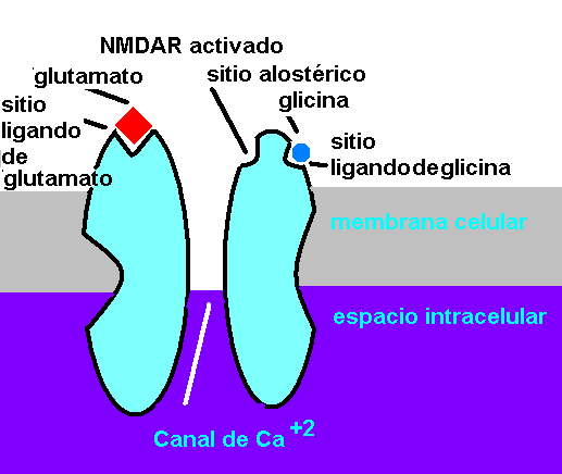 NMDAR Activated spanish script , base english wikipedia